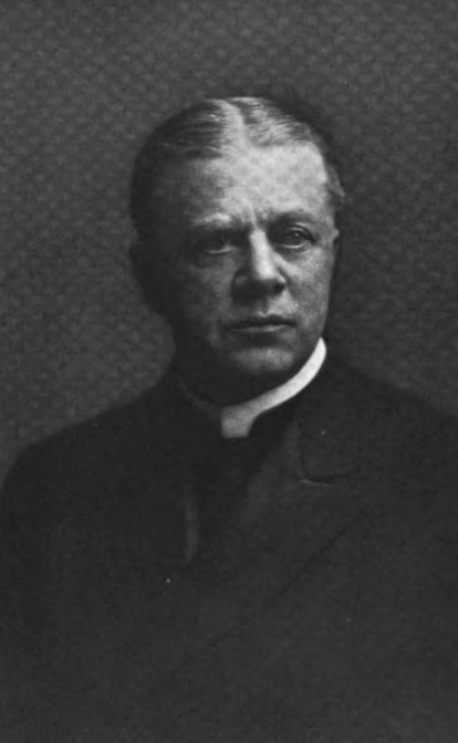 The Rt. Rev. Samuel D. Babcock, Episcopal Suffragan Bishop of Massachusetts, consecrated June 17, 1913. Samuel Gavitt Babcock:- Samuel G. Babcock